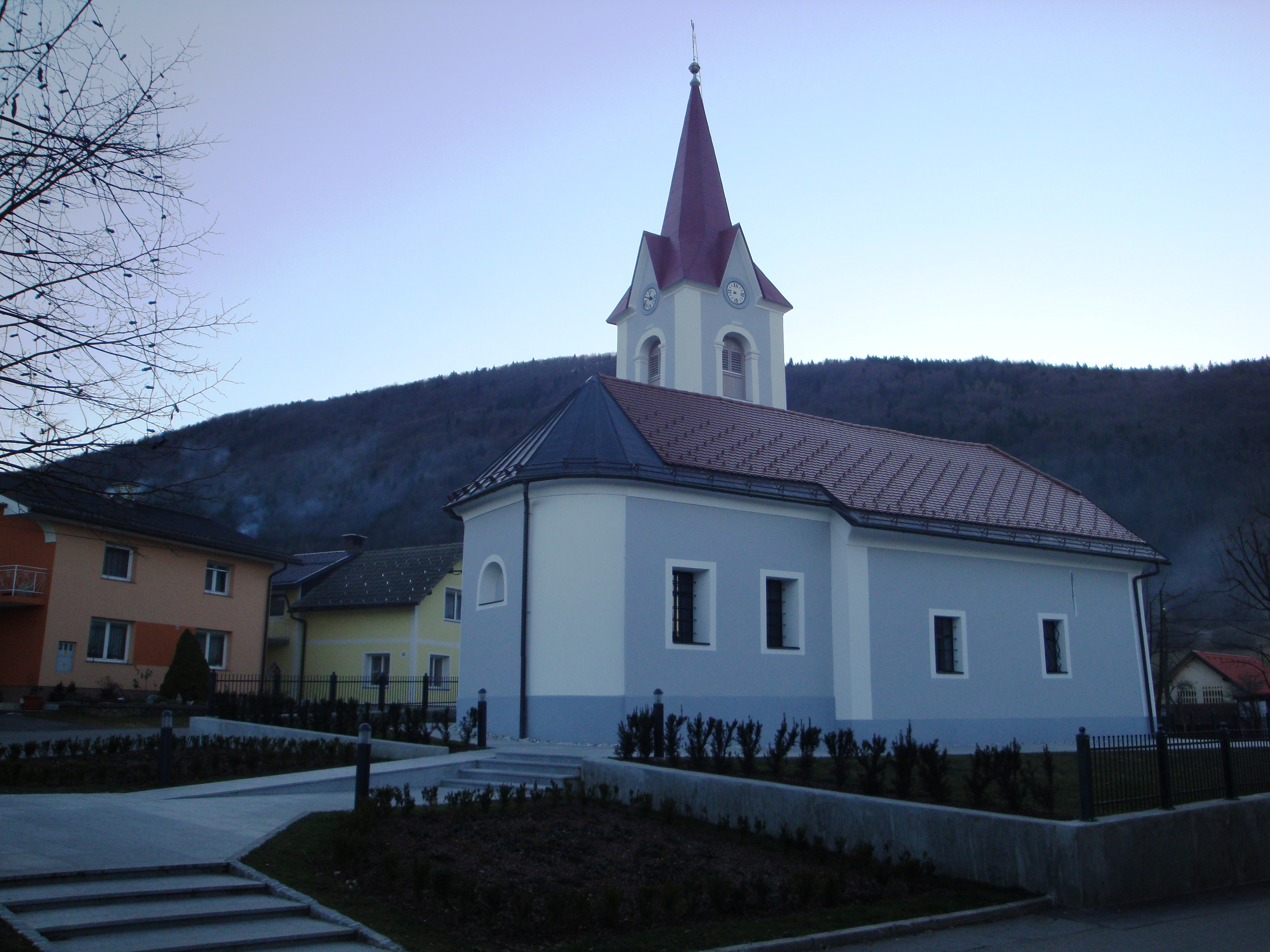 Church Sv. Vid, Kompolje, Slovenija